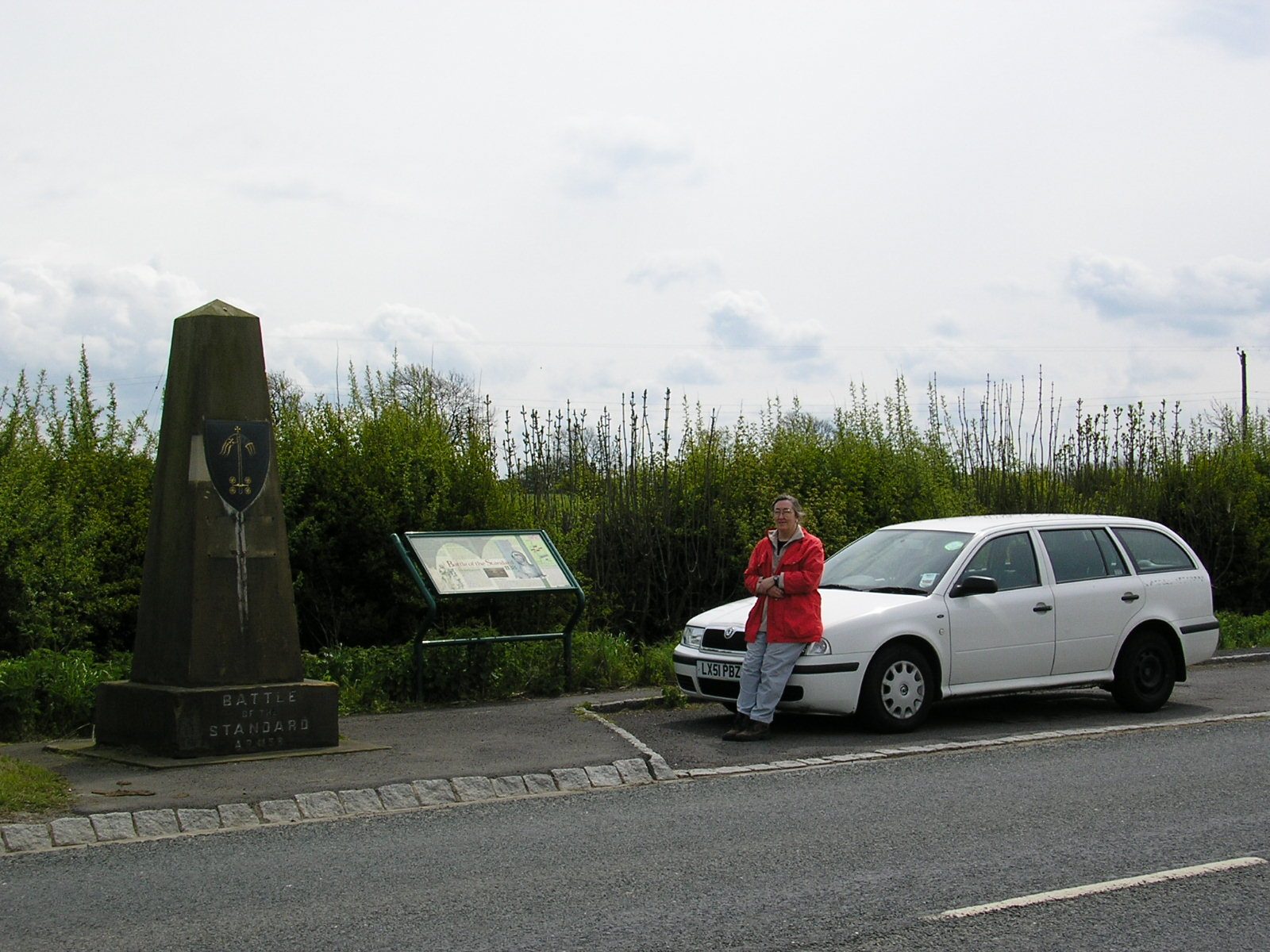 The monument to the Battle of the Standard, 1138 when the Scots attacked from the south.